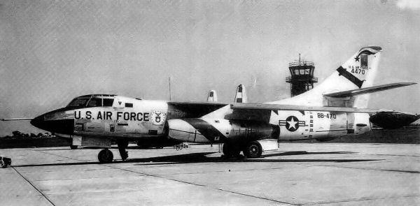 RB-66C-DT Destroyer, AF Serial No. 54-470, of the 42d TRS/10th TRW at RAF Chelveston, UK.